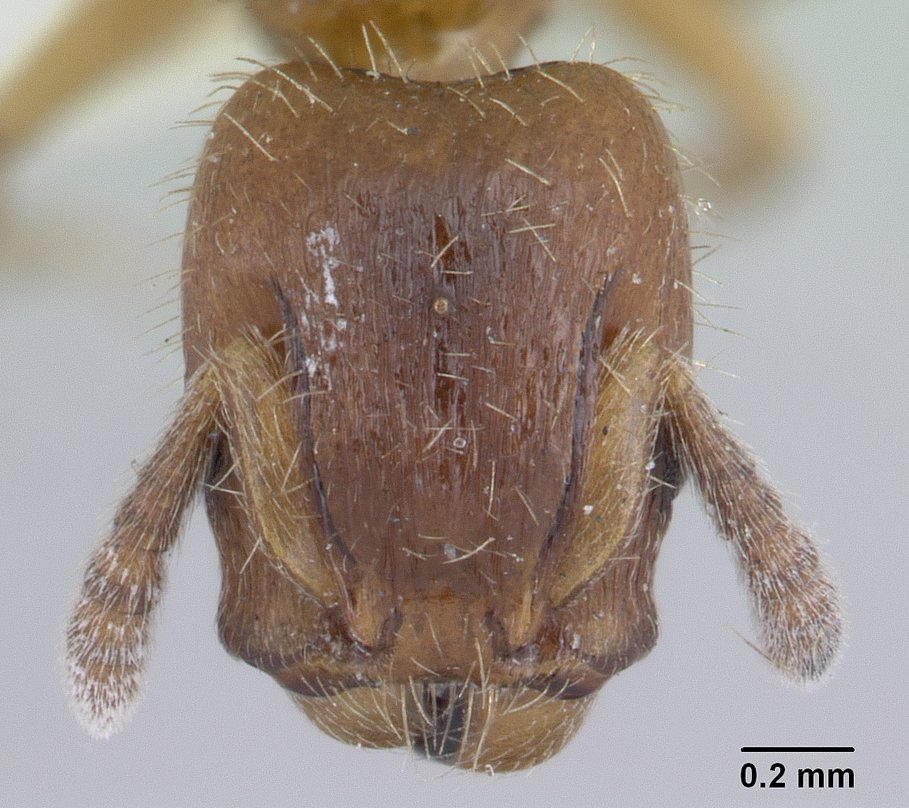 Head view of ant Harpagoxenus sublaevis specimen casent0178588.